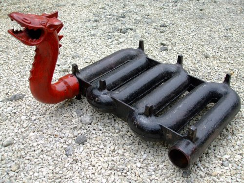 Salamander for open fires